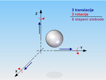 Available body